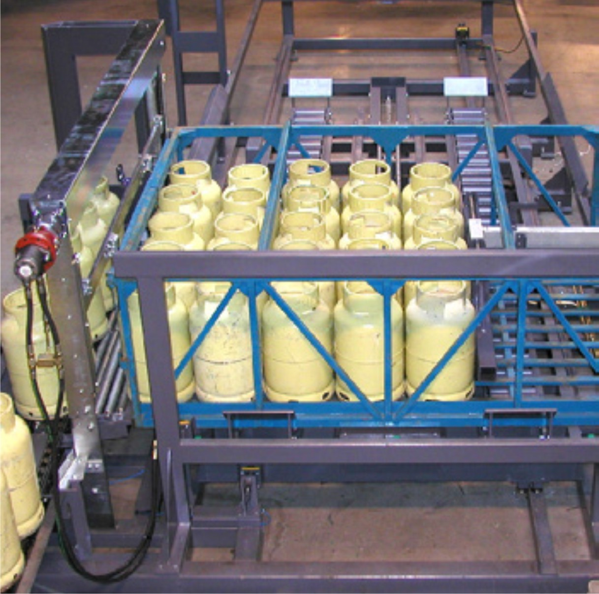 Палета с баллонами на установке